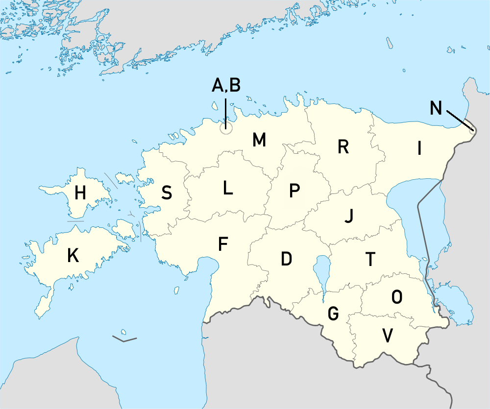 Locator map of the former Estonian license plates codes